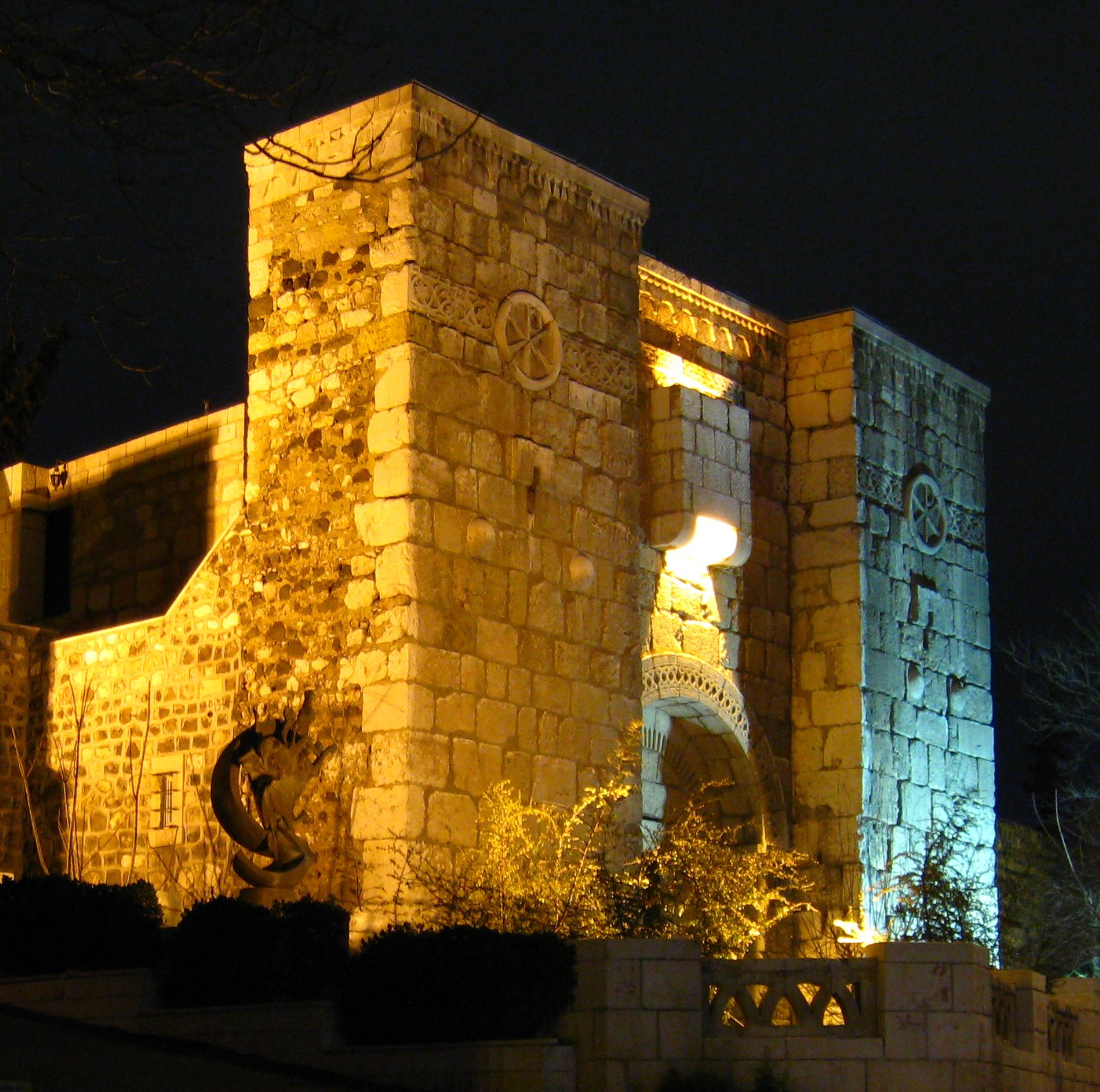 Chapel of Saint Paul by night, Damascus, Syria.